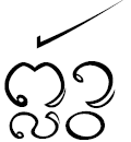 Lanna-Name of District in the North of Thailand